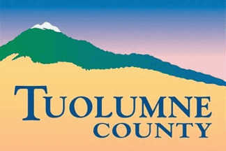 The official flag of Tuolumne County, California. Adopted by the Tuolumne Board of Supervisors in September 2007. It was created by Don Hukari, a California graphic artist.